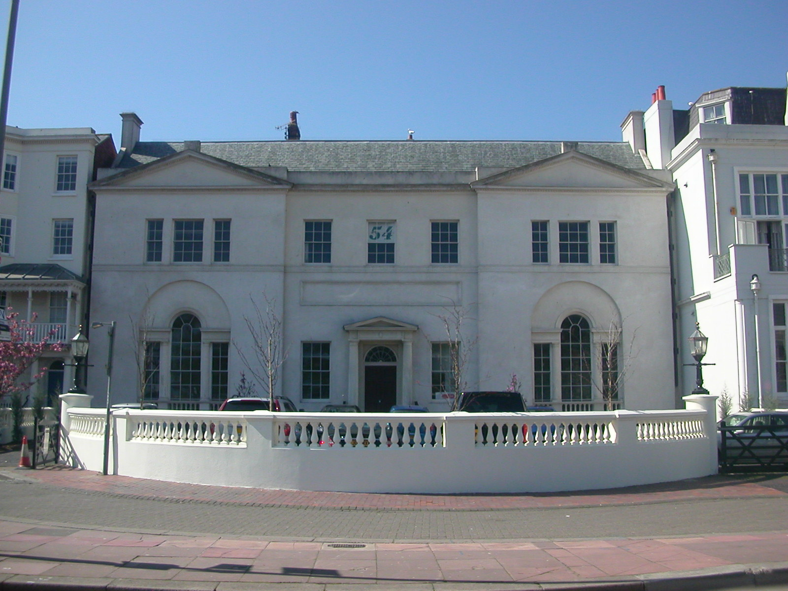 Marlborough House, Old Steine, Brighton, City of Brighton and Hove, East Sussex, England. Listed at Grade I by English Heritage (IoE Code 480995)